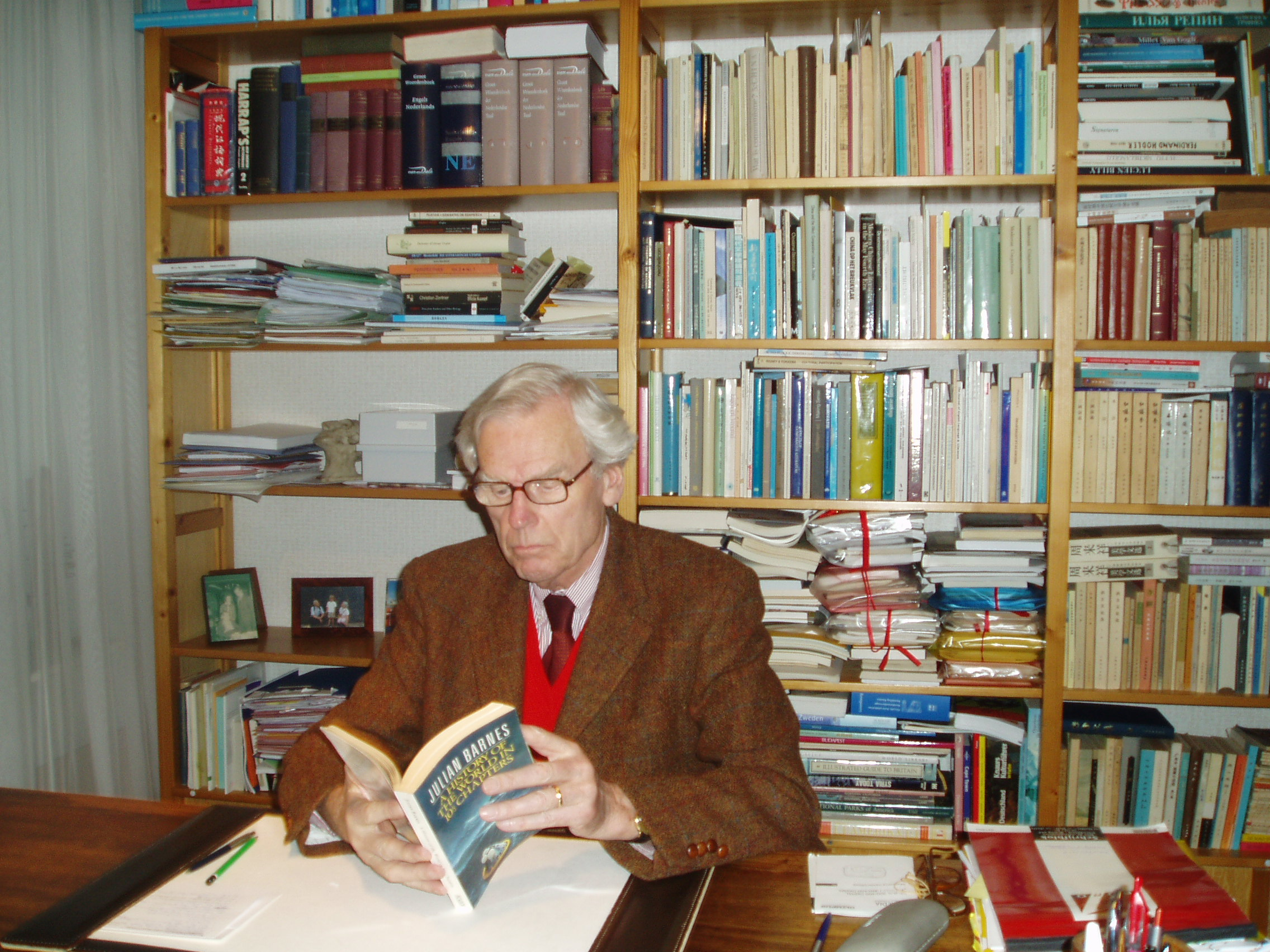 Picture of Dutch Professor emeritus Douwe Fokkema in his study in Amsterdam (Neth)